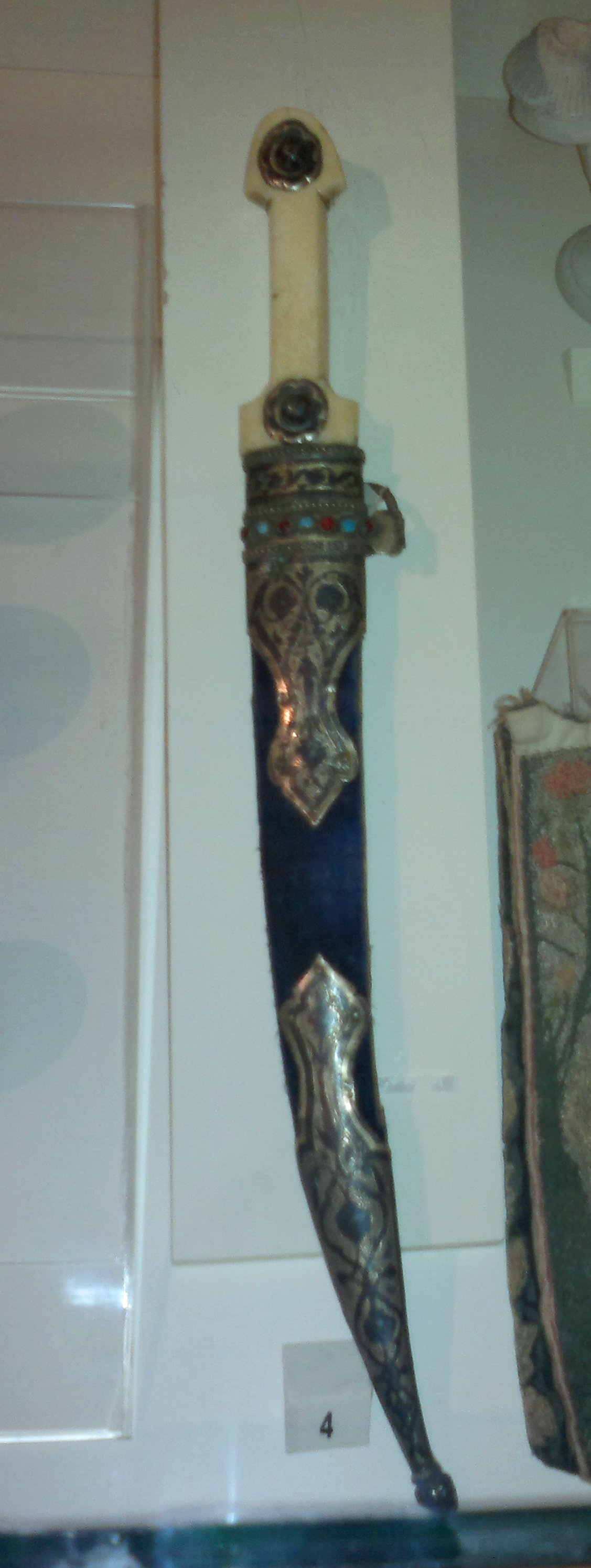 Dagger of Mikhail Semyonovich Vorontsov|Mikhail Vorontsov in Museum of History of Azerbaijan (Baku).